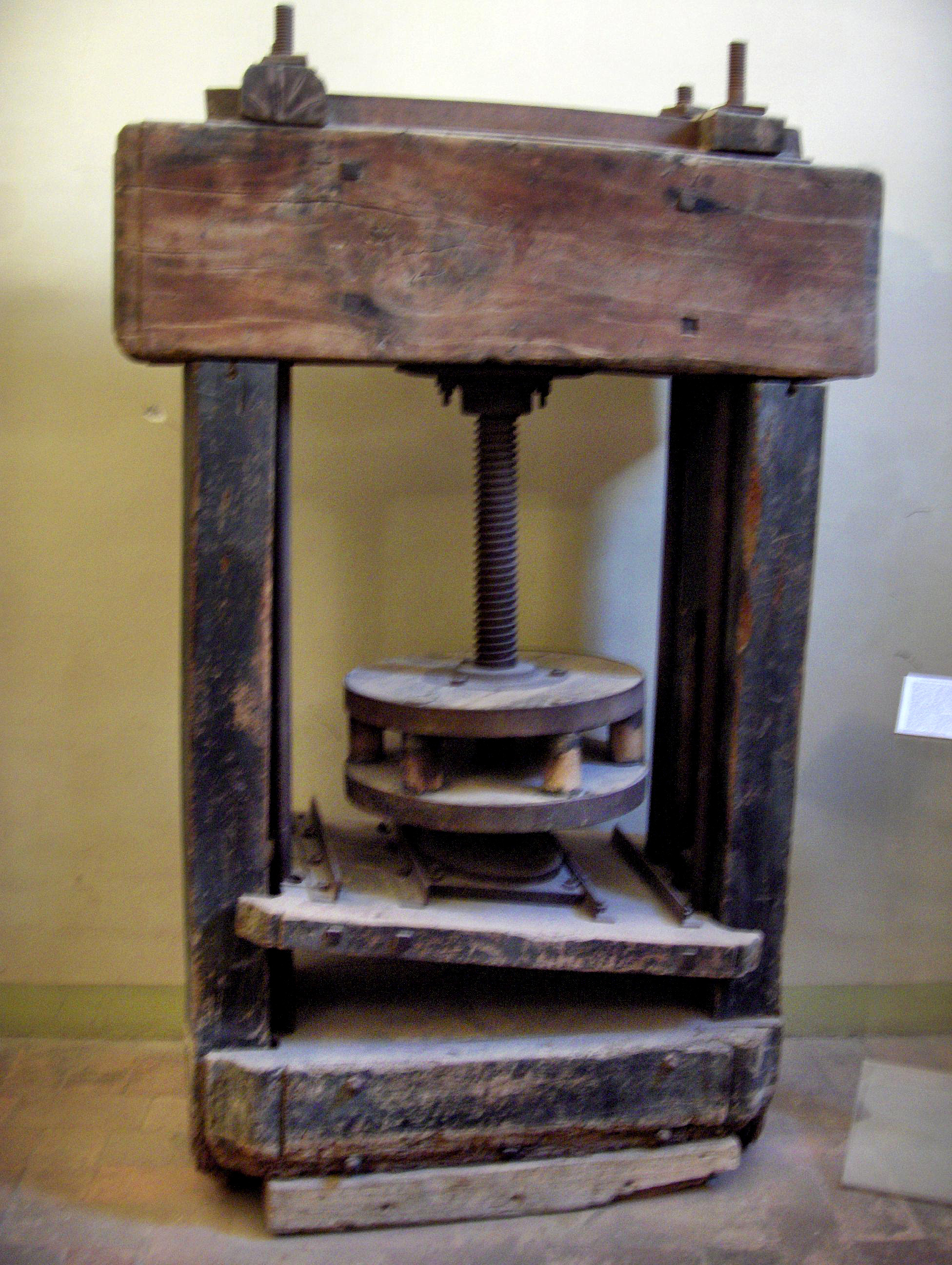 Printing press on which the first edition of Dante's Divina Commedia was printed on 11 April 1472; Oratorio della Nunziatella, Foligno, Italy